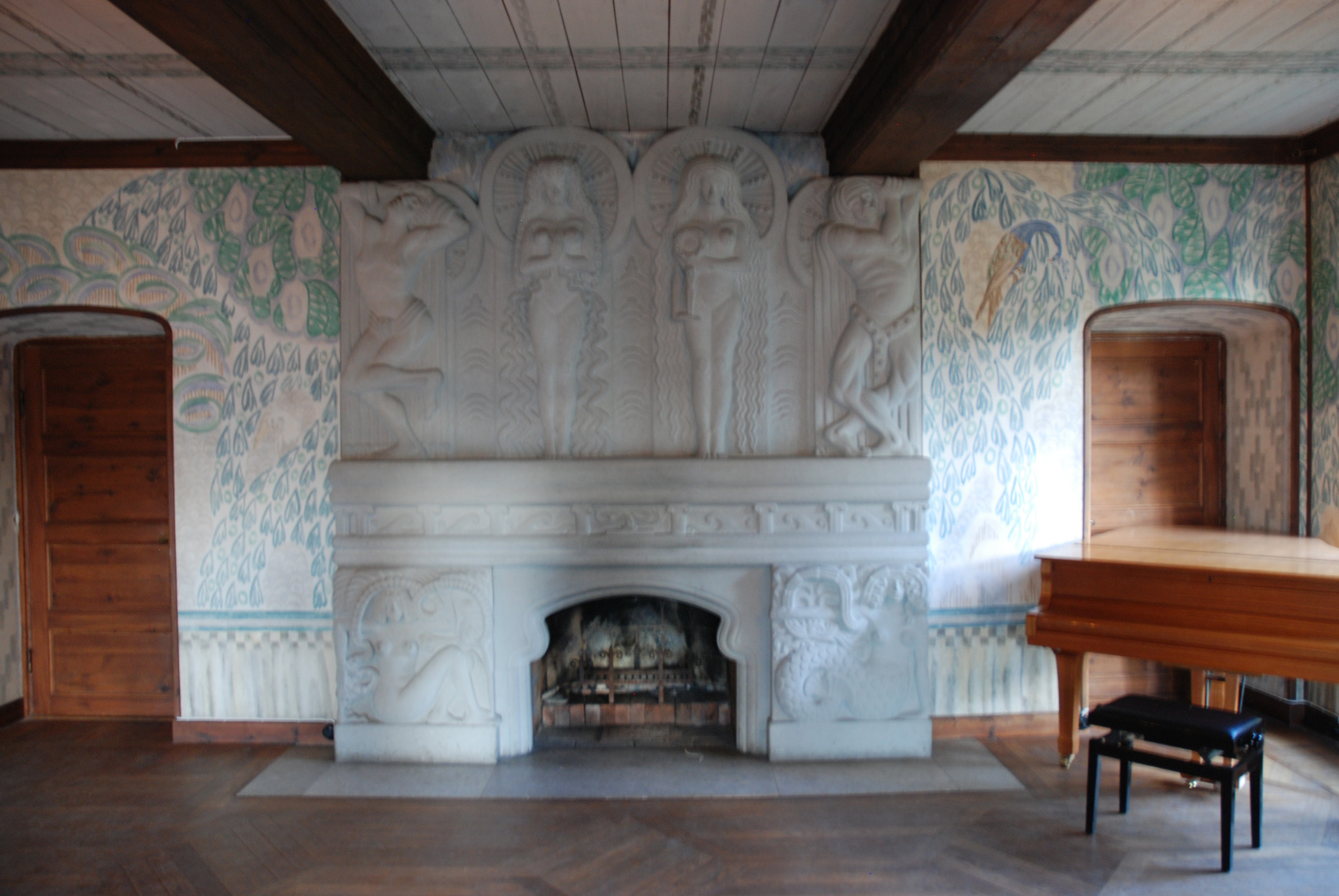 Interiior, Villa Muramaris, north of Visby, GotlandUnknown